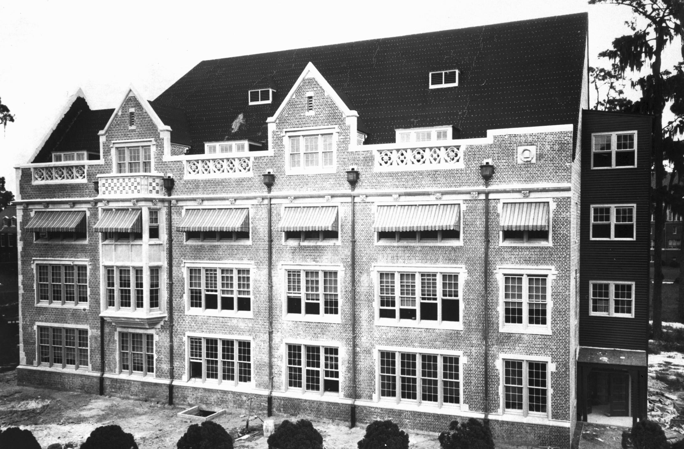 A historic photo of Rolfs Hall